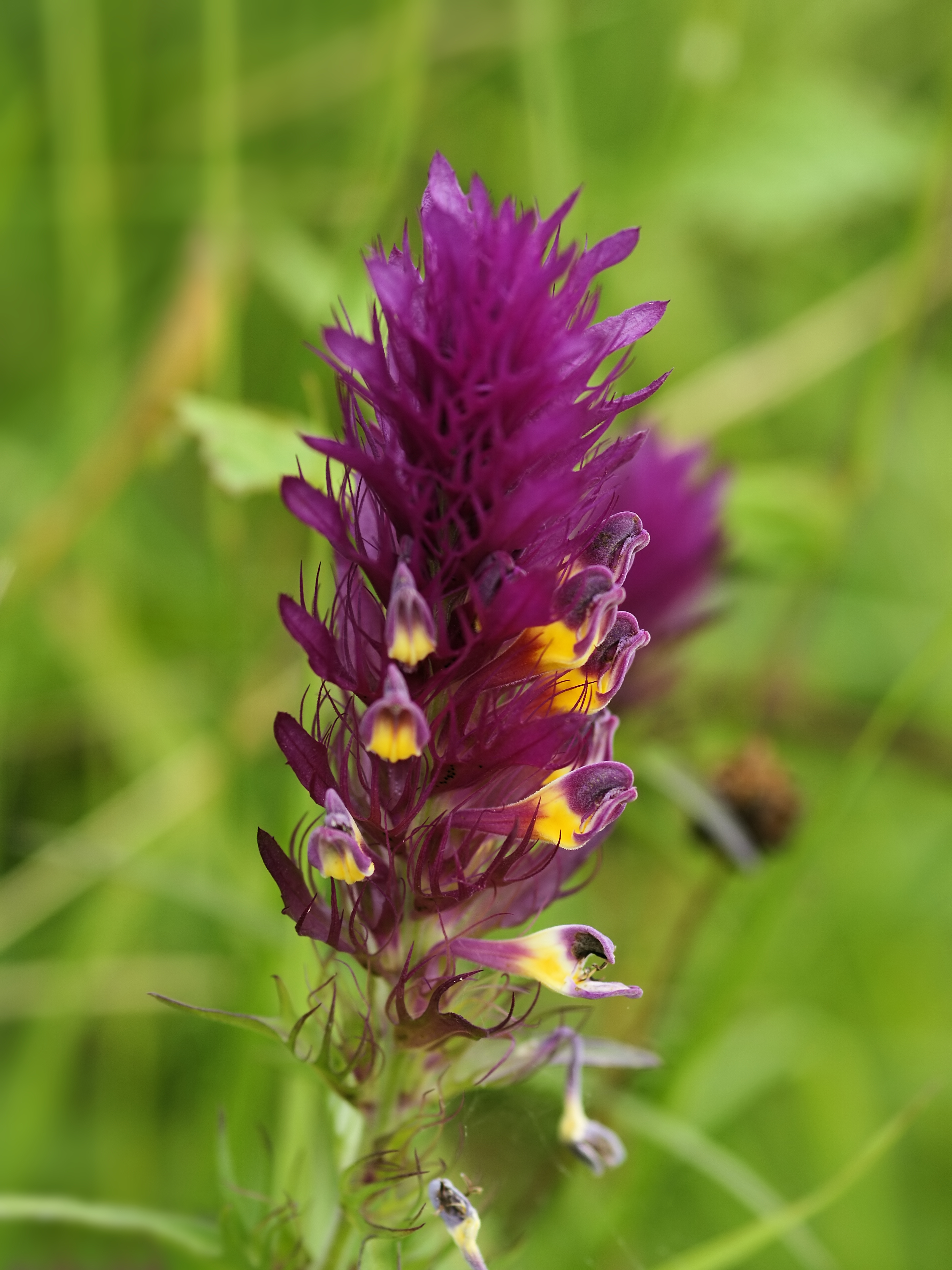 Field Cow-wheat close to Treignes, Belgium